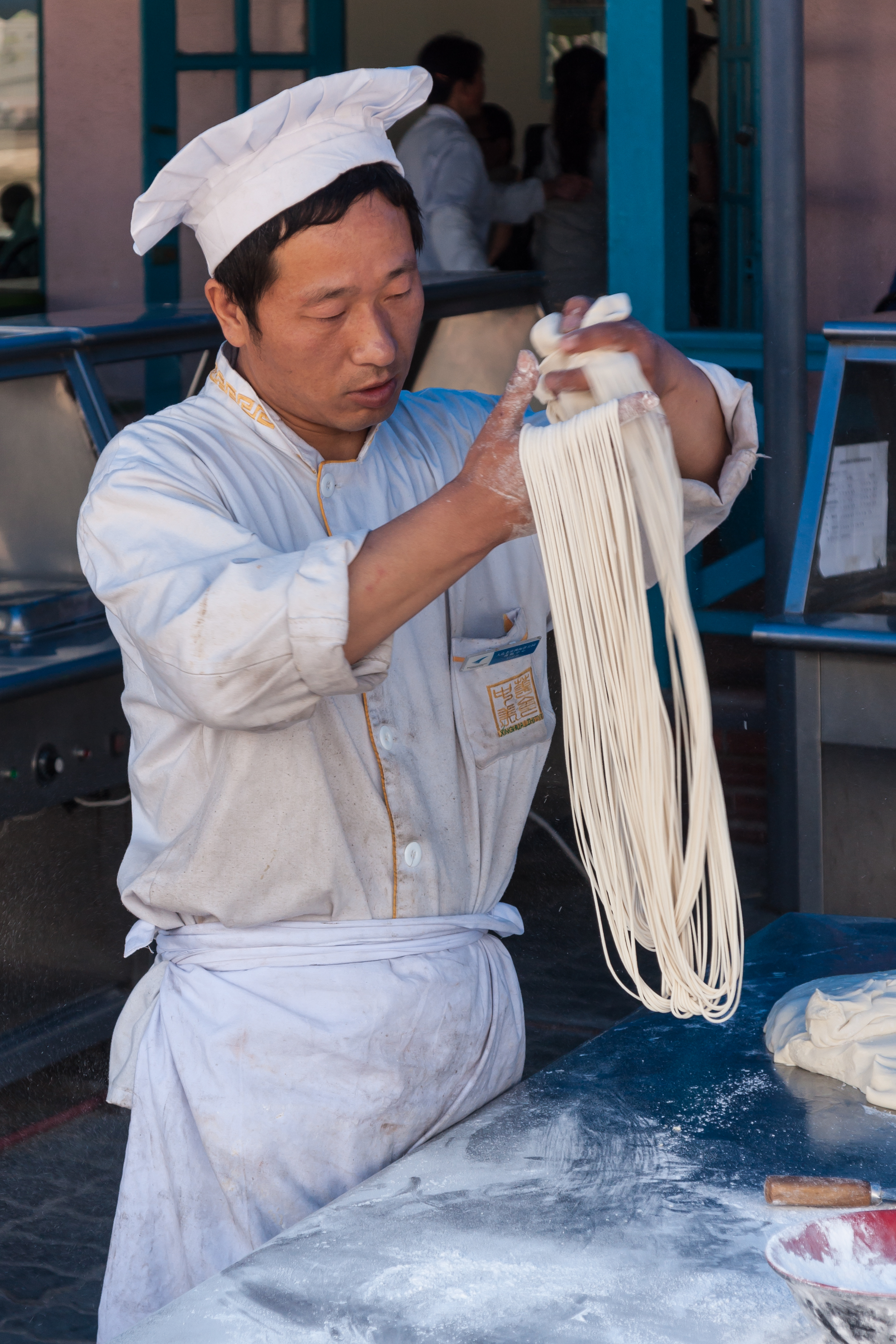 Dalian, Liaoning, China: Noodlemaker in Dalian Laohutan Ocean Park